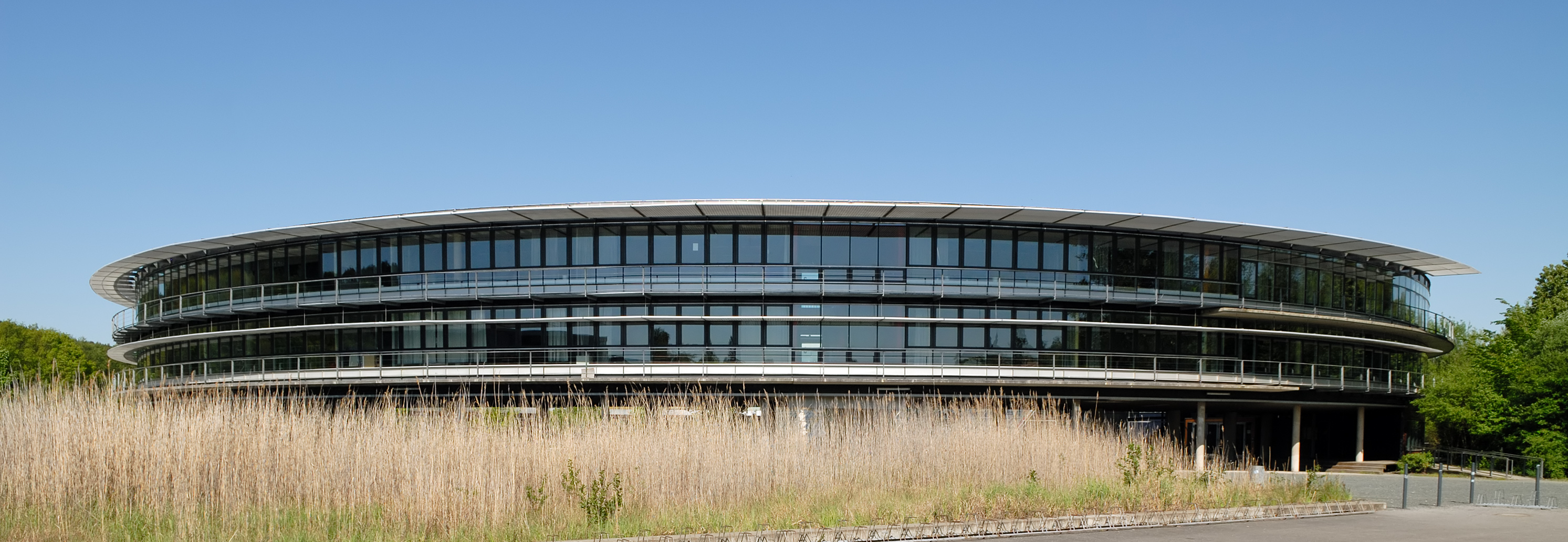 This image the gymnasium in Flöha, Germany.